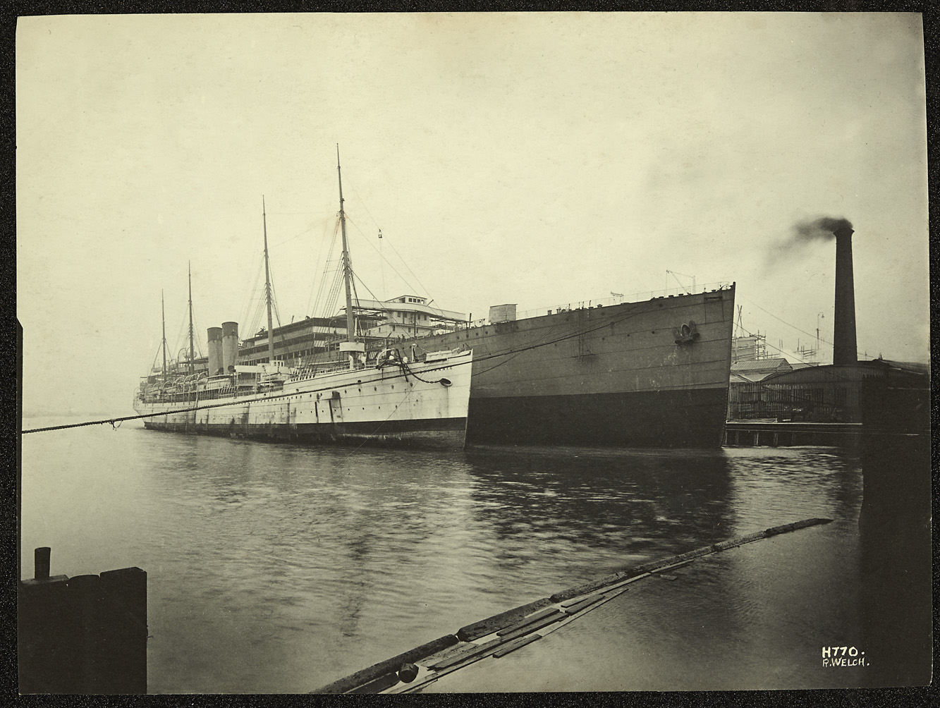 Creator: R. Welch (Photographer) Date: 1912 Original Format: Photographic Print Description: The Britannic. PRONI Ref: D1403_2~036~A Copying and copyright: Please For Copy Orders, contact: For fees and charges